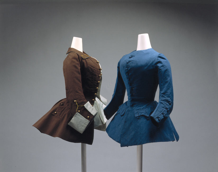 British; Riding Coat